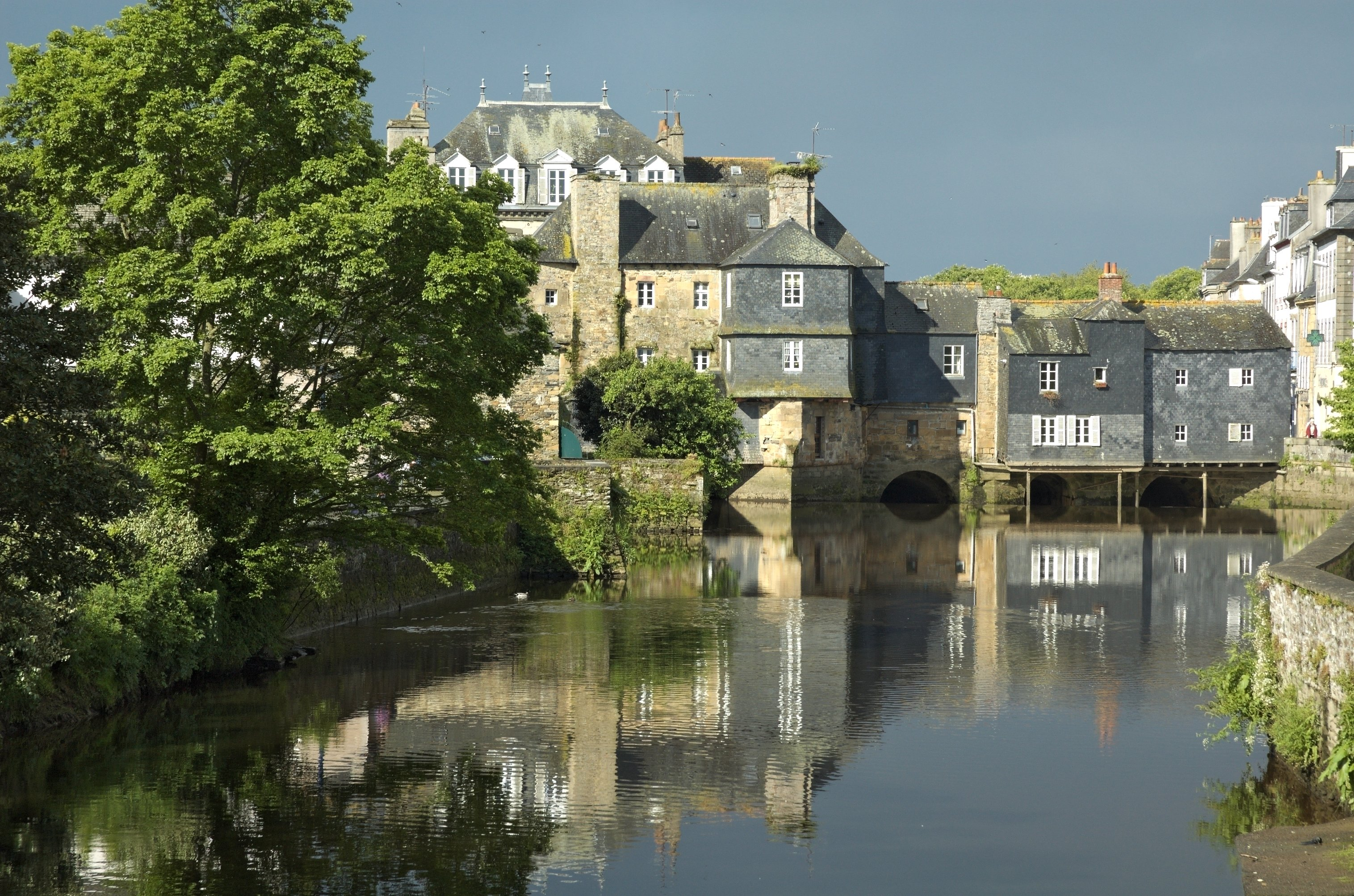 Pont de Rohan, the upstream side. Landerneau, Finistère, Bretagne, France.